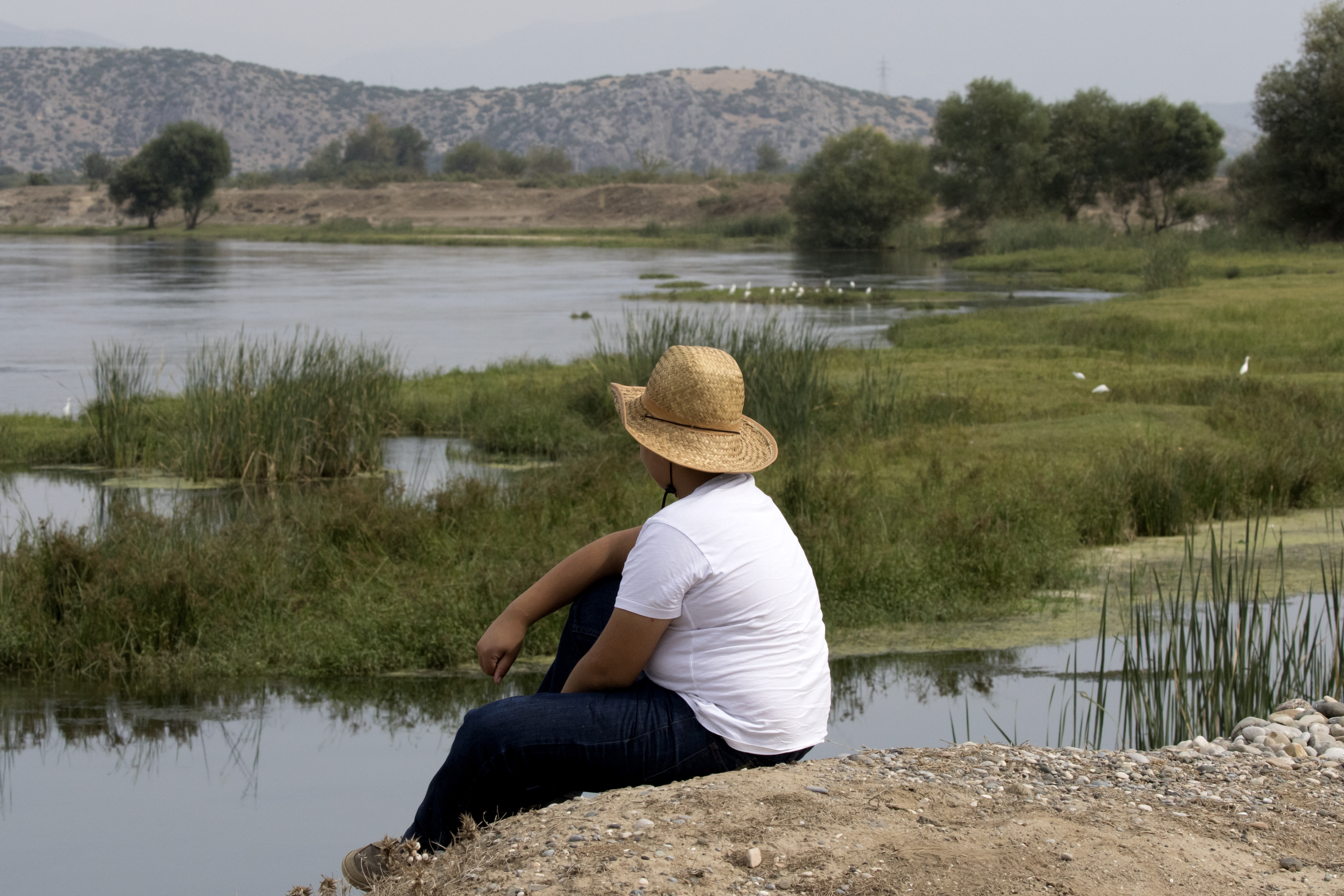 A view of Ceyhan River near Gökçedam. Osmaniye, Turkey.